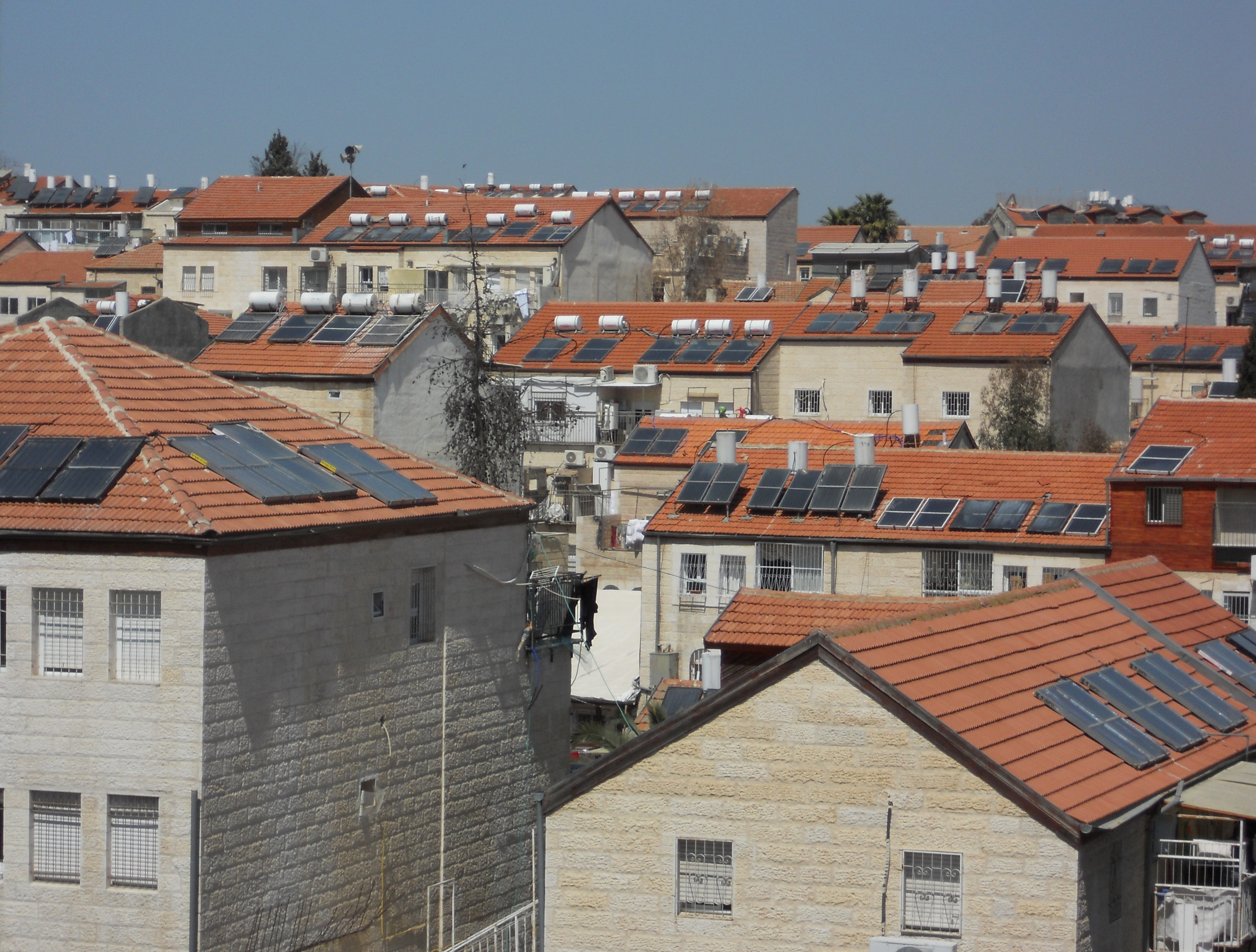 View of the Beit Yisrael neighborhood in Jerusalem from the roof of the Mir Yeshiva.